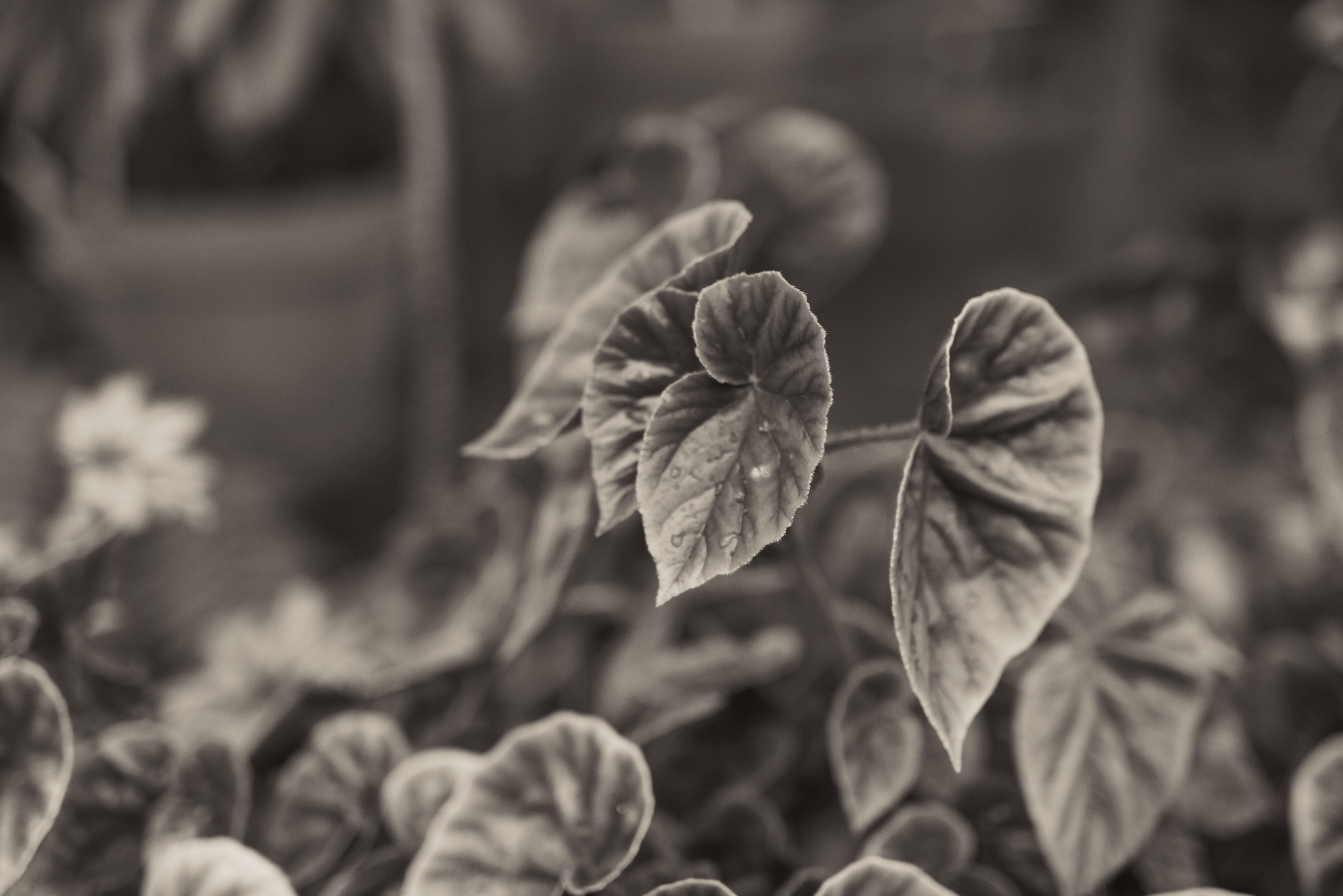 The original greenhouse at Mount Holyoke was destroyed by a fire. This is a close up of the current version, in winter 2016.